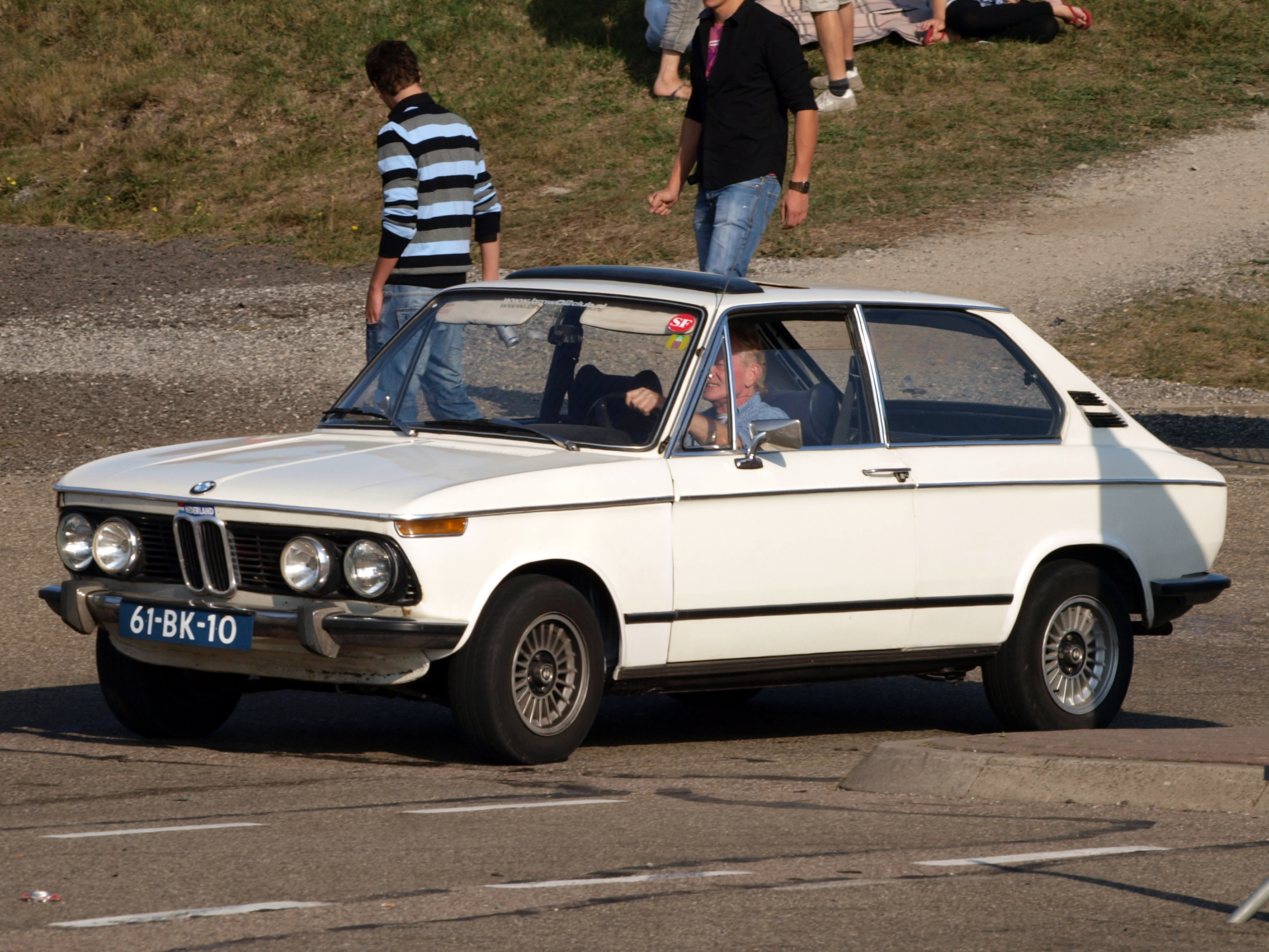 Photographed at the Nationaal Oldtimer Festival Zandvoort 2009, The Netherlands. OLYMPUS DIGITAL CAMERA